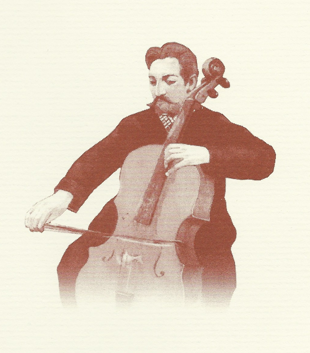 Based on the famous painting by Paul Gauguin "The Cellist (Portrait Upaupa Schneklud)», 1894.